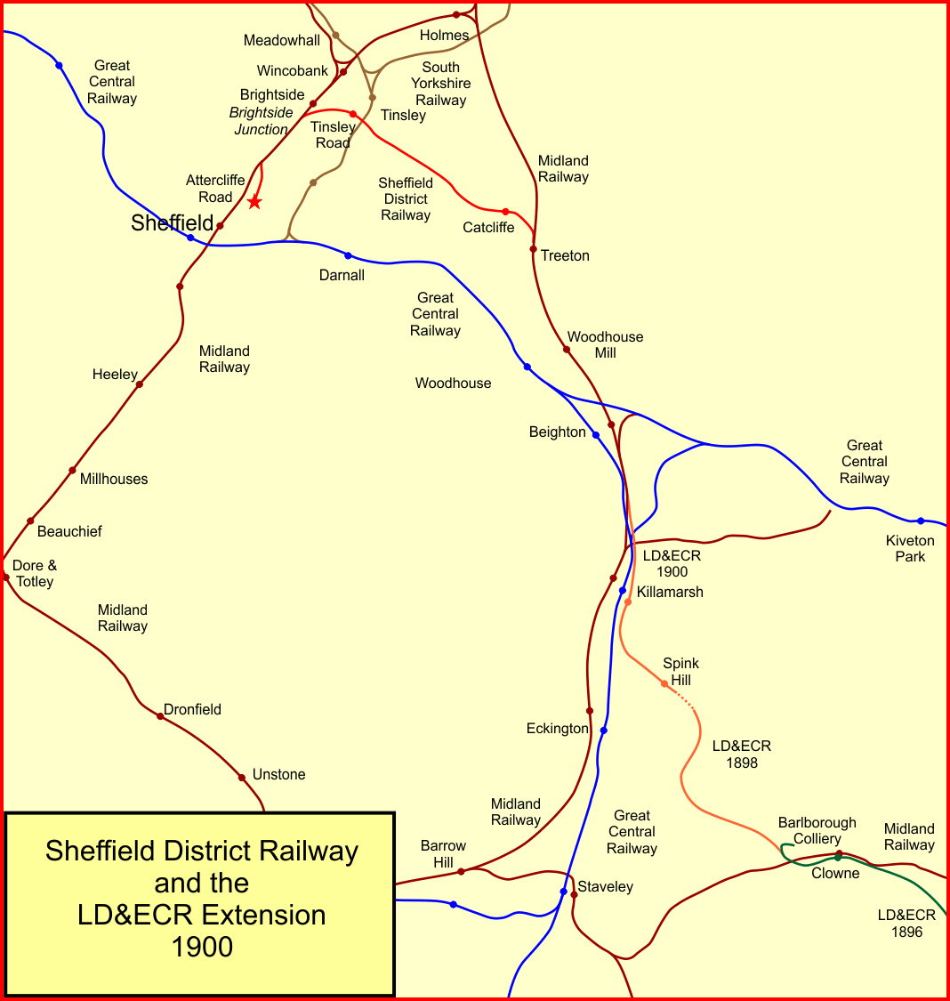 System map of the Sheffield District Railway in 1900, England